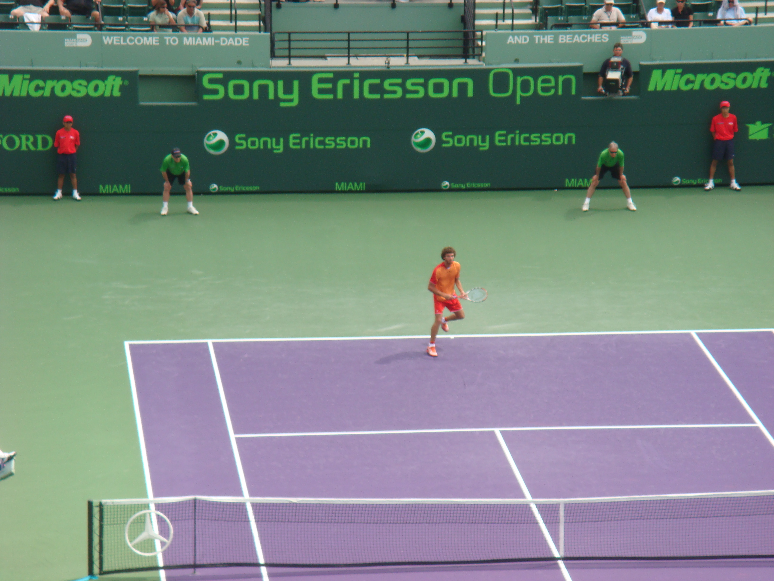 G. Kuerten x S. Grosjean for Miami Open 2008.